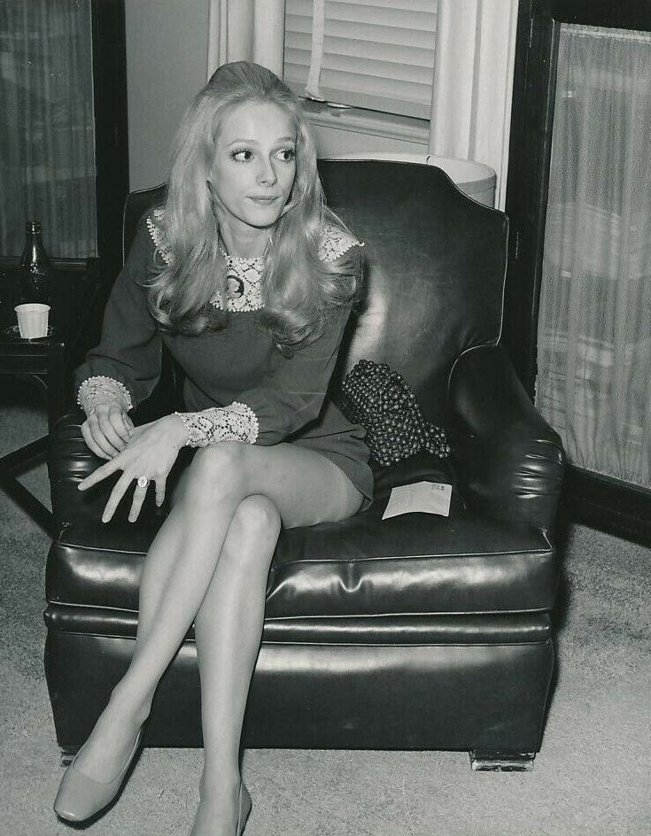 Sondra Locke at a press conference in Burbank, July 1968